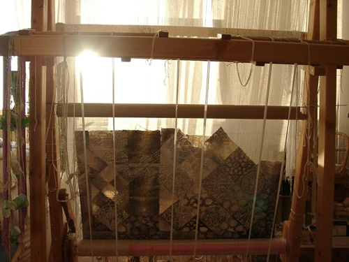 "Transcendental light" in progress